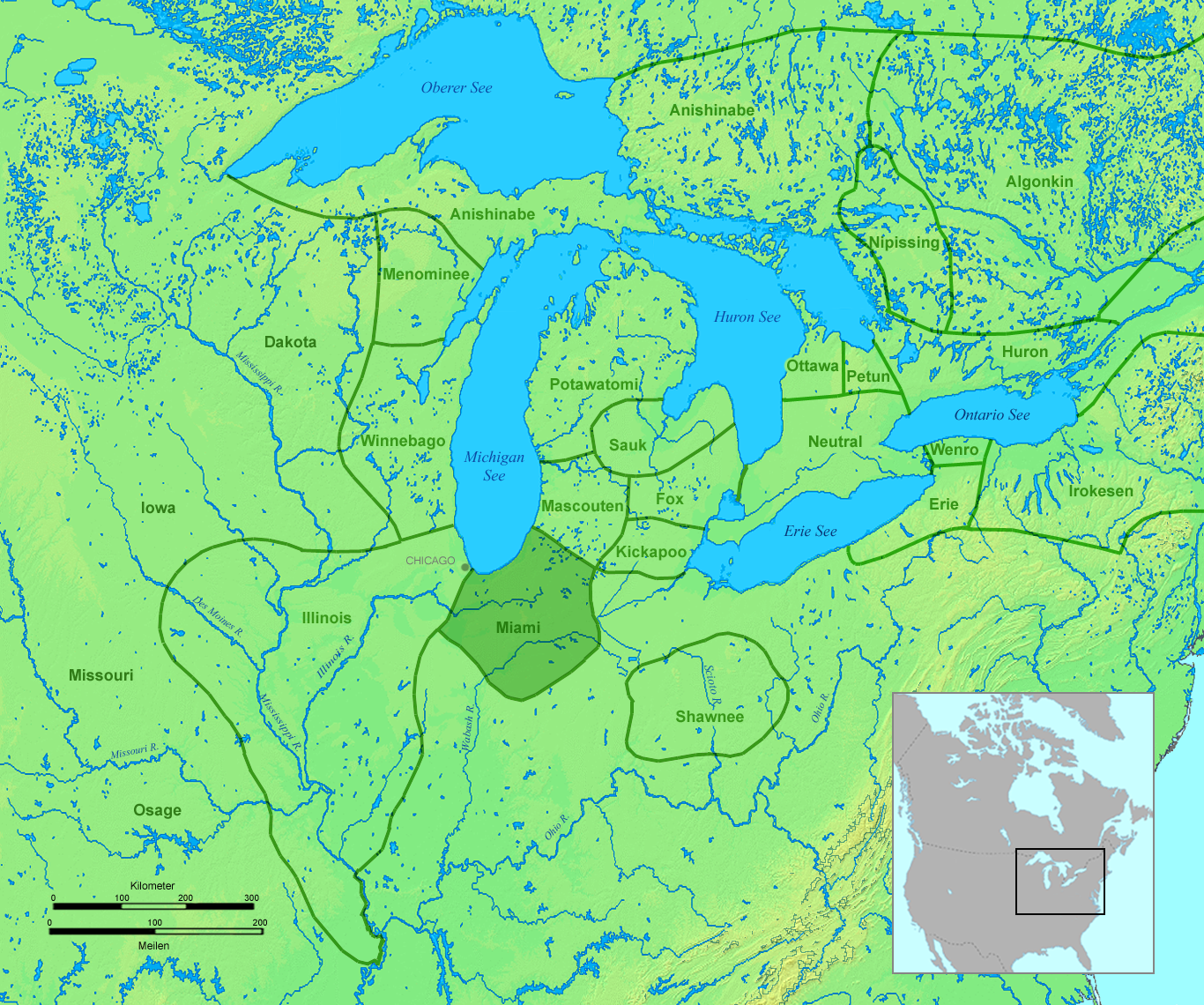 Tribal territory of Miami probably before 1650